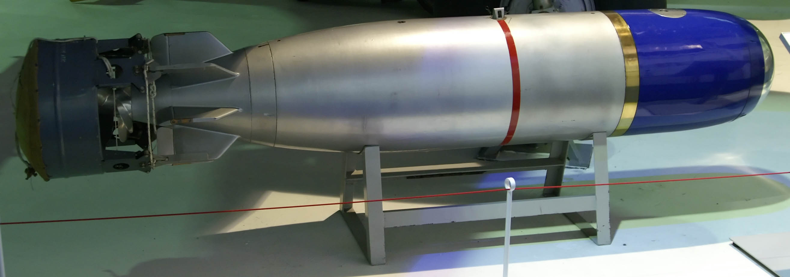 A Mark 30 Torpedo at the RAF Museum in Hendon, London. Photo by Max Smith